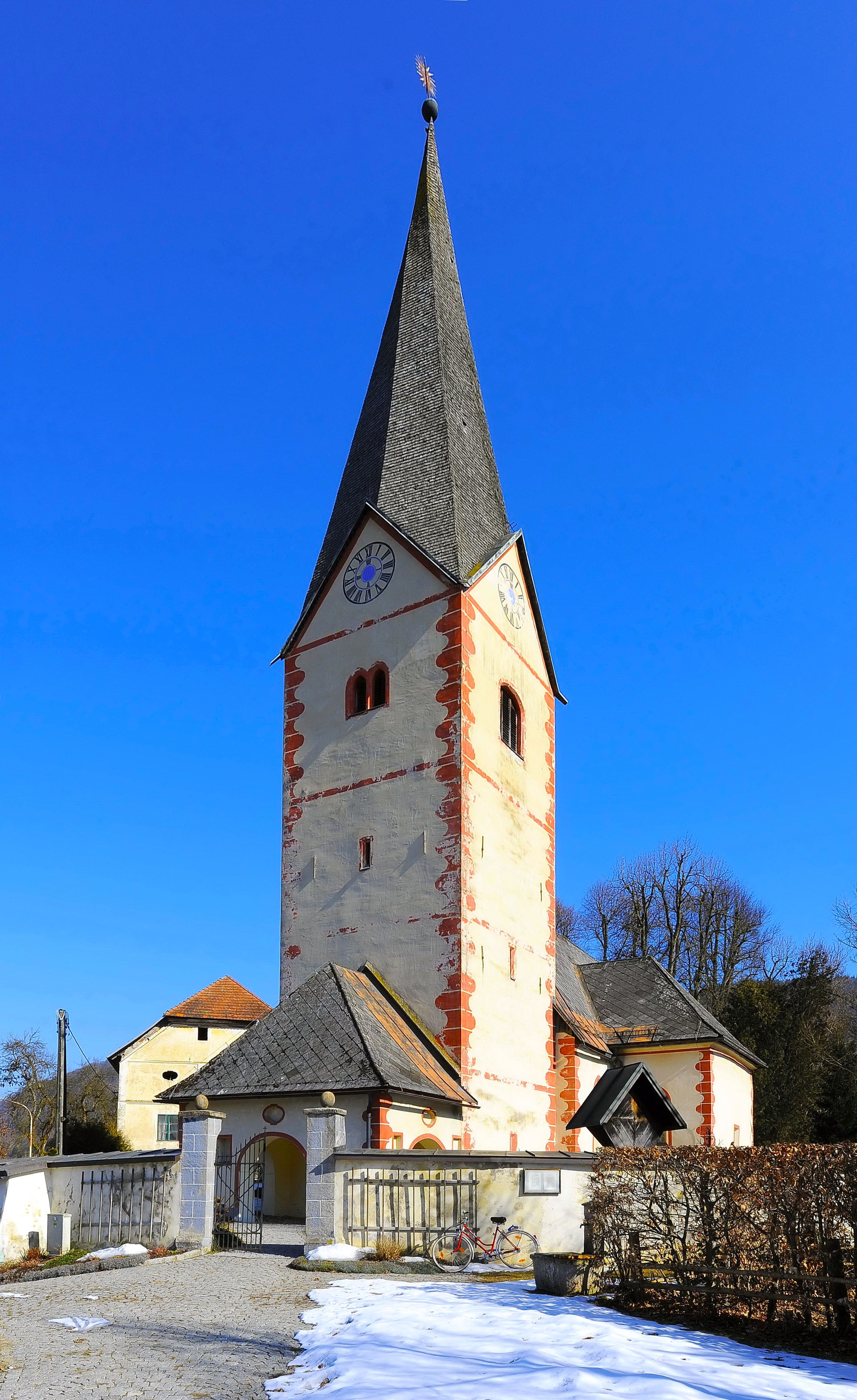 Parish church Saint Paul in Möchling, municipality Gallizien, district Voelkermarkt, Carinthia, Austria